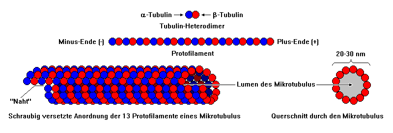 Structure of eucaryotic microtubules as formed by 13 protofilaments composed from tubuline dimers